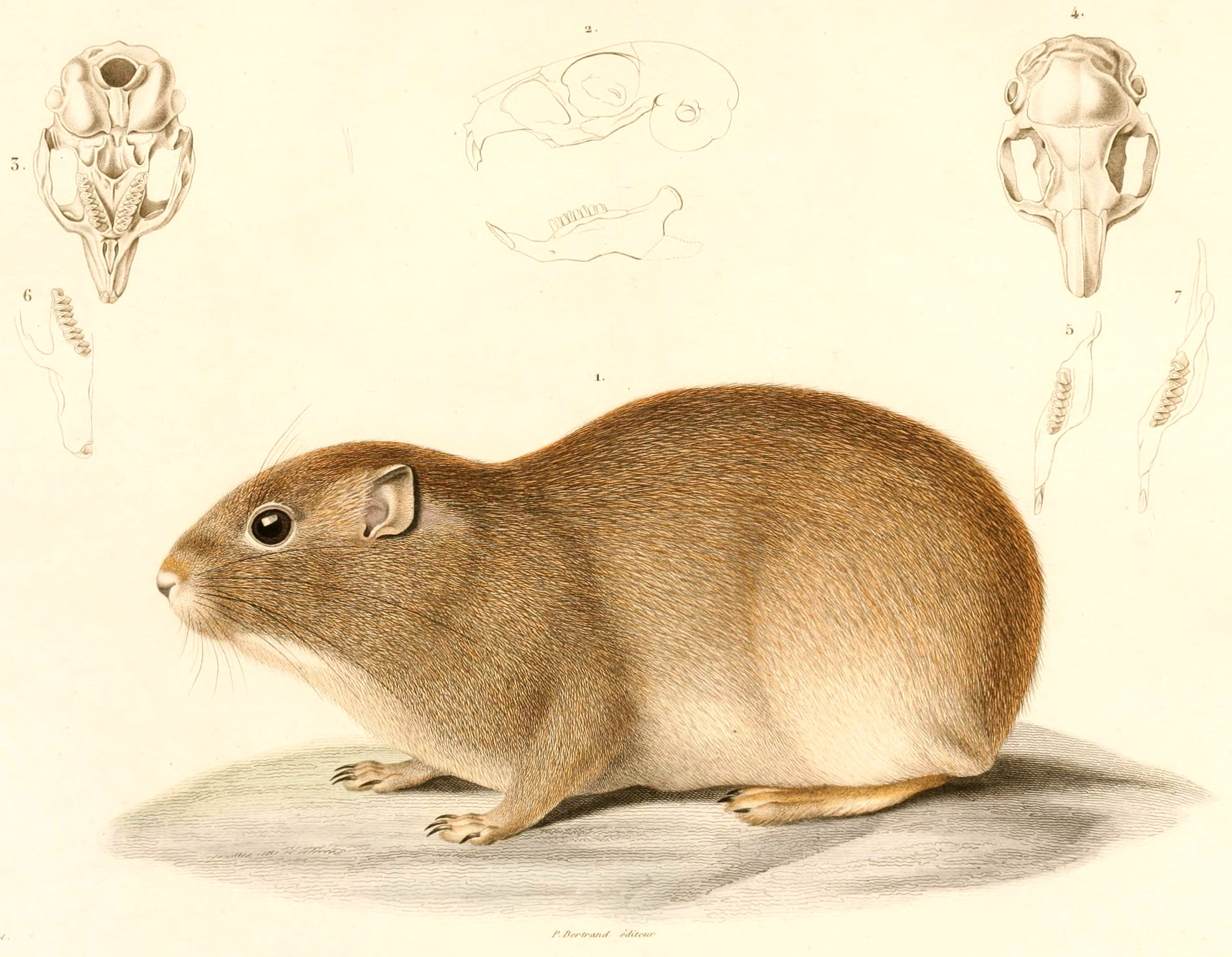 « Cavia australis » = Microcavia australis (Southern mountain cavy)